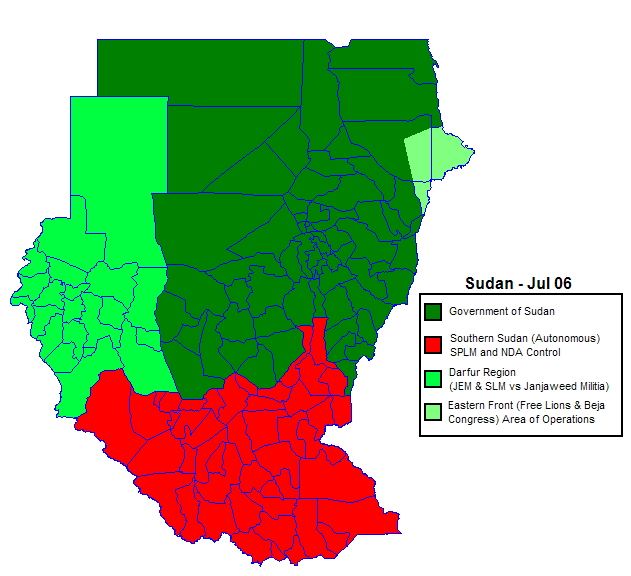 Summary I, (user: Orthuberra), has created this map from the District map of Sudan, editing it to show the current political situation and factions within the country of Sudan from various news reports.